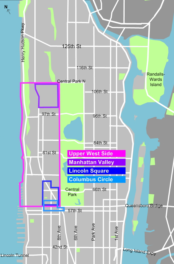 map of the Upper West Side of Manhattan, New York, NY